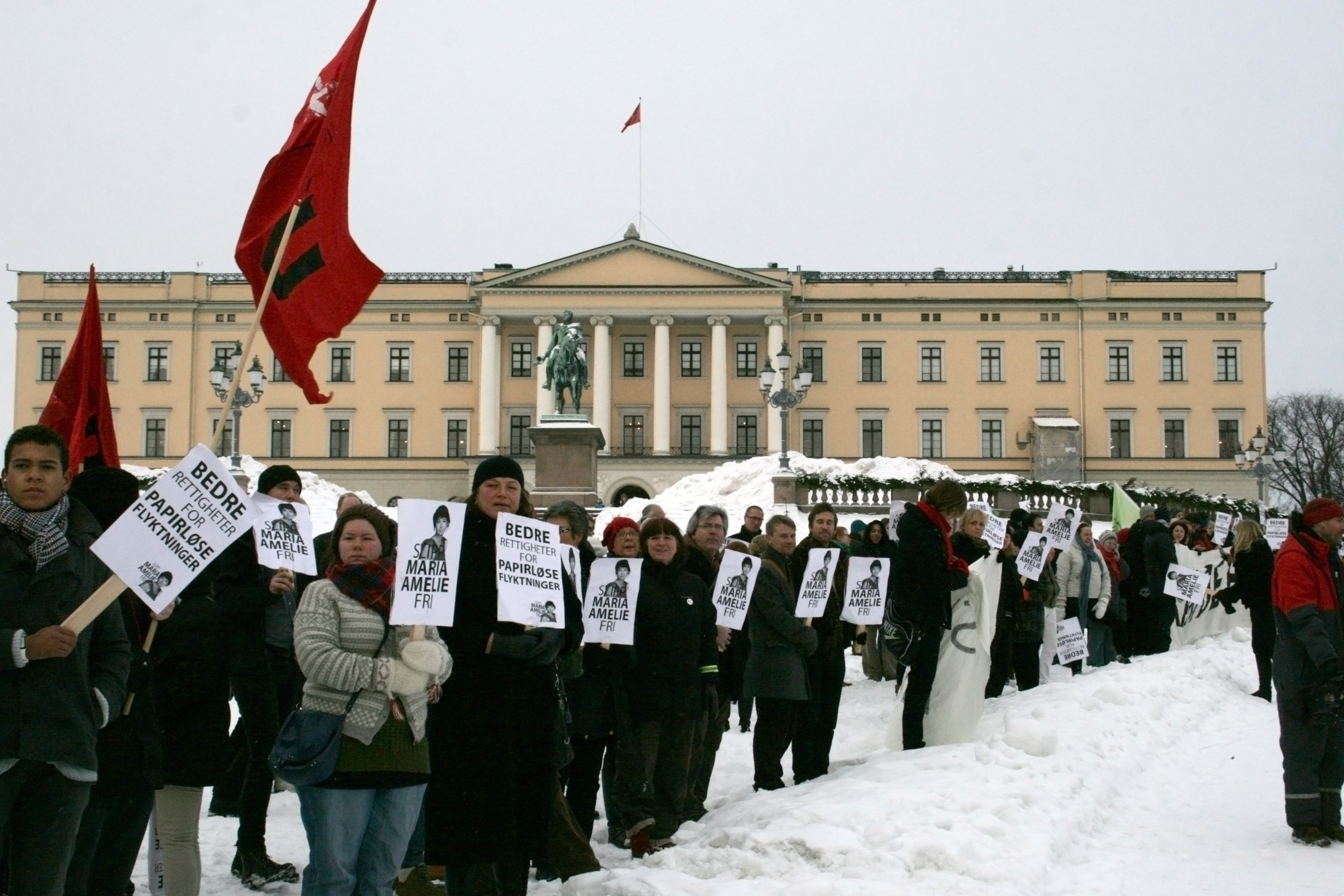 Activists outside a government meeting at the Royal Palace in Norway, protesting against the arrest of asylum applier and writer Maria Amelie.